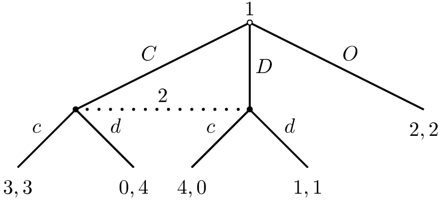 An extensive form representation of a prisoner's dilemma with an outside option for player 1